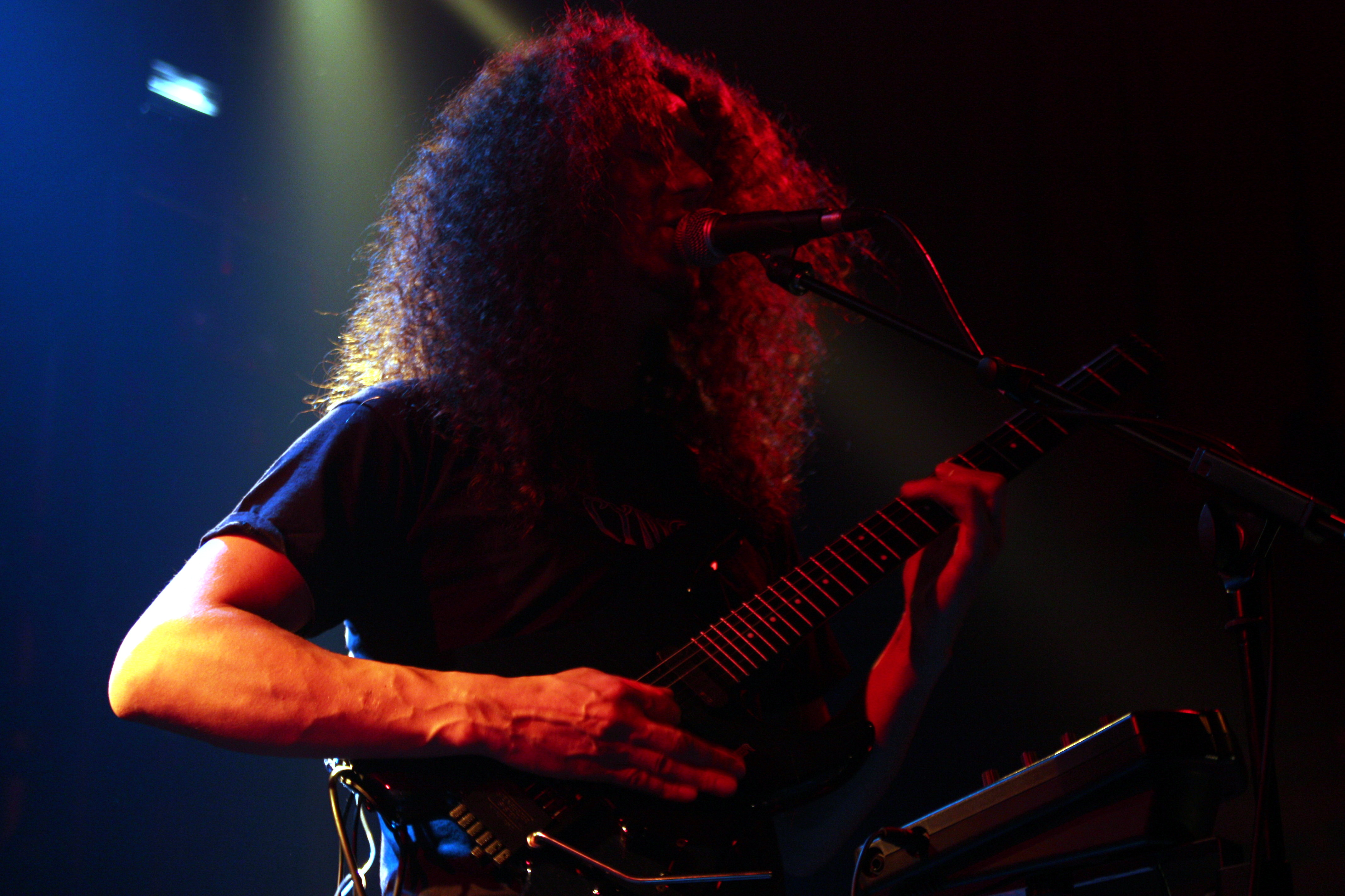 Tymon Kruidenier of Cynic, 2009